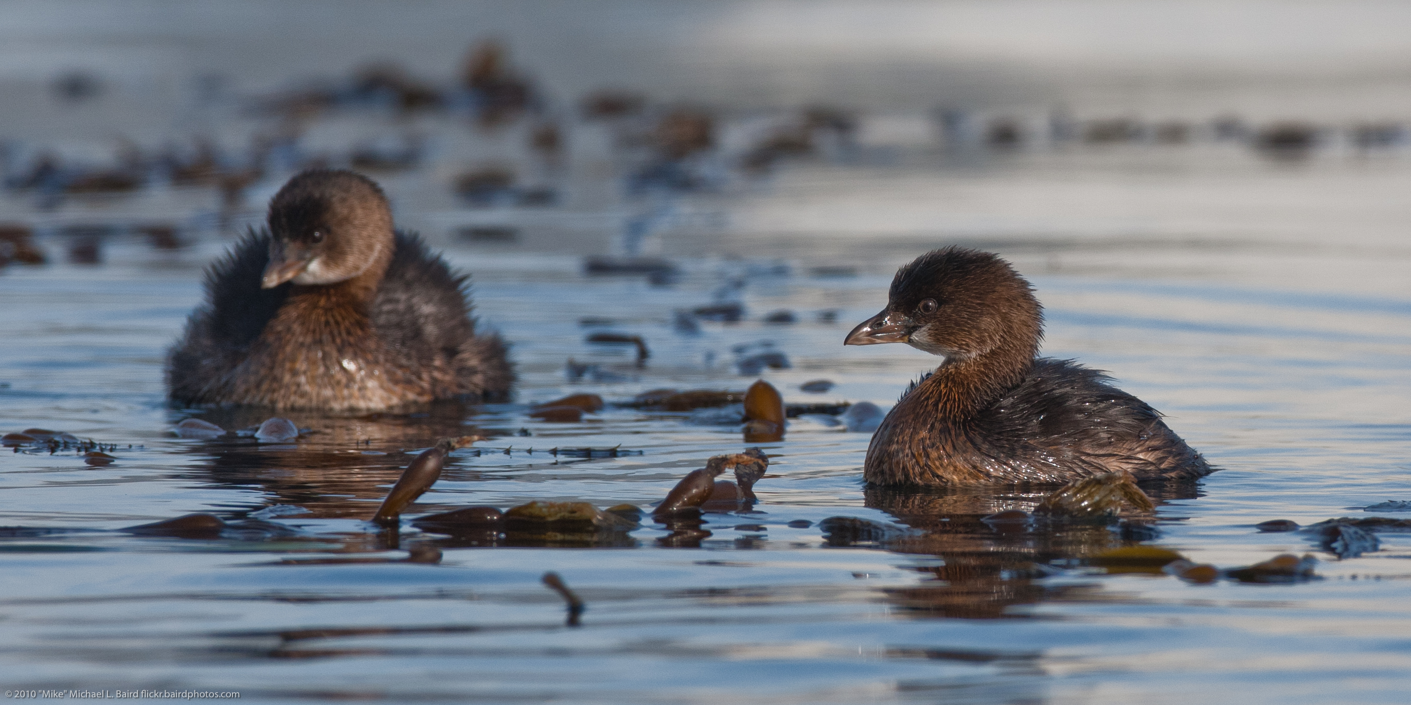 Two Pied-billed Grebes swimming in Morro Bay, California, USA.